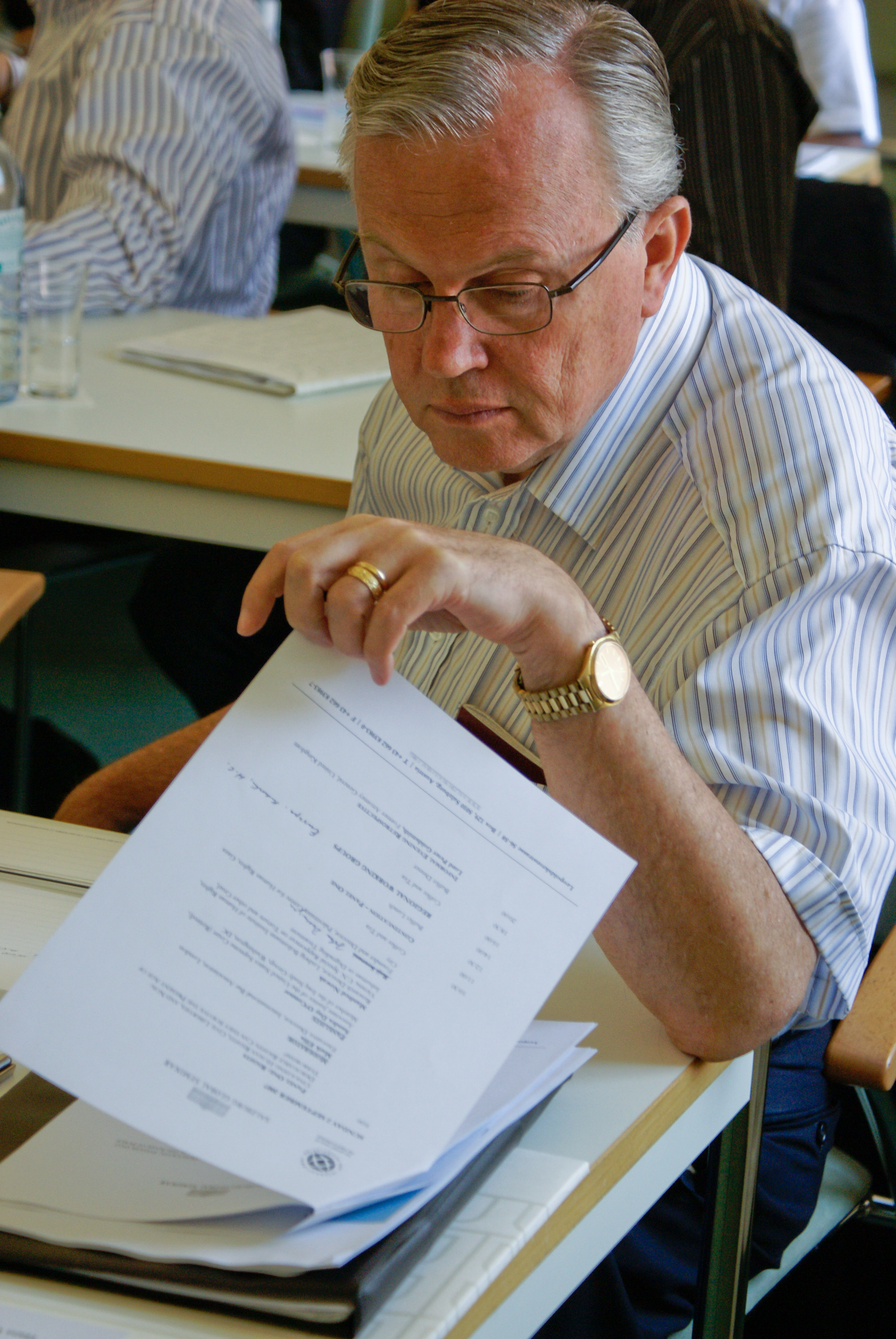 Hans Corell (born July 7, 1939) is a Swedish diplomat. Between March 1994 and March 2004 he was Under-Secretary-General for Legal Affairs and the Legal Counsel of the United Nations. In this capacity, he was head of the Office of Legal Affairs in the United Nations Secretariat. (wikipedia) Photo was taken during the Salzburg Global Seminar 443 in September 2007